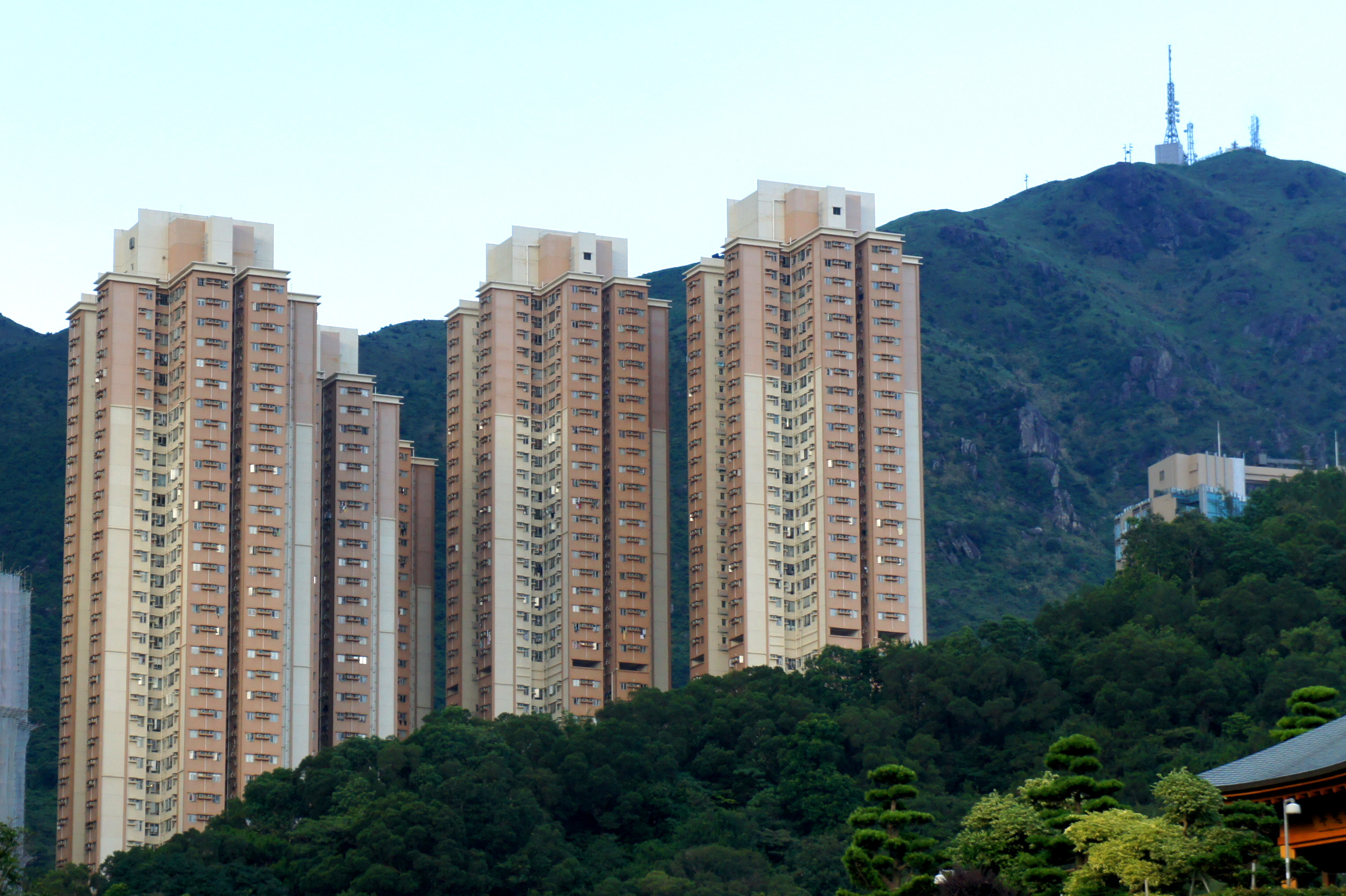 Kingsford Terrace, Ngau Chi Wan, Kowloon, Hong Kong.